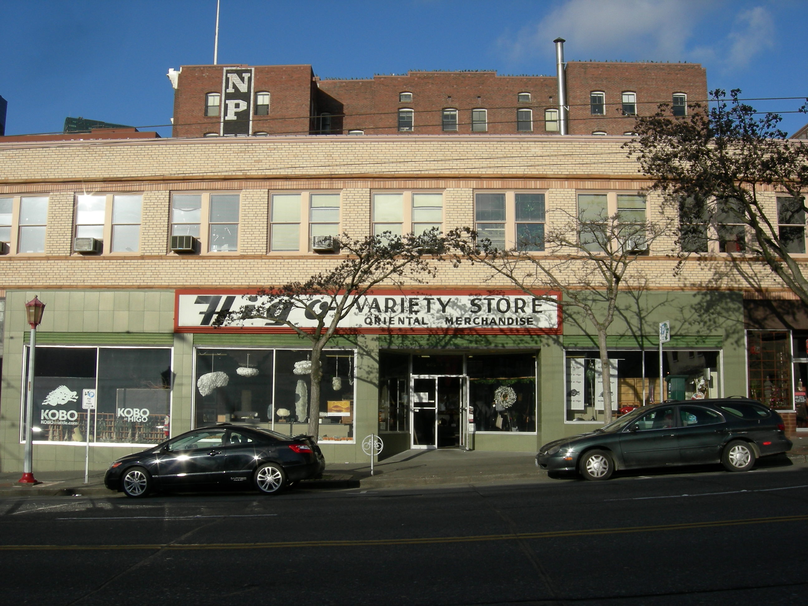 Former Higo Variety Store, now Kobo at Higo, 604 S Jackson Street in the International District, Seattle, Washington, USA. Higo was, for many decades, a "5 & 10". Kobo is an art gallery, which has kept many elements of the former store intact and dedicated some space to museum-like preservation of some artifacts from Higo.